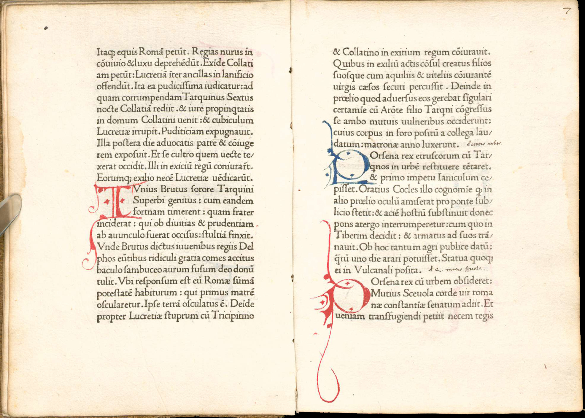 Spread from the "De viris illustribus" printed by Nicolas Jenson about 1474. Copy of the Bayerische Staatsbibliothek.